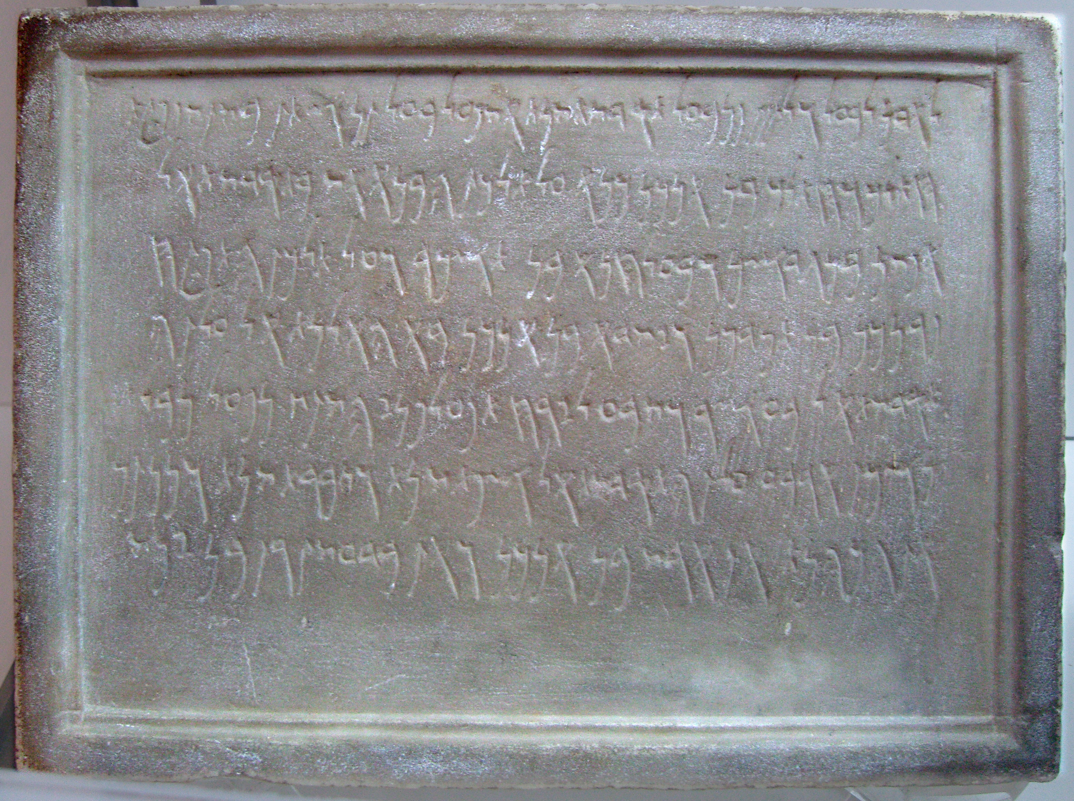 Inscription in Punic characters: dedication to Baal Hammon and Tanit to whom the citizens of Thinissut had sanctuaries built. Ist century BC or Ist century AD (see A. Merlin). Known as KAI 137